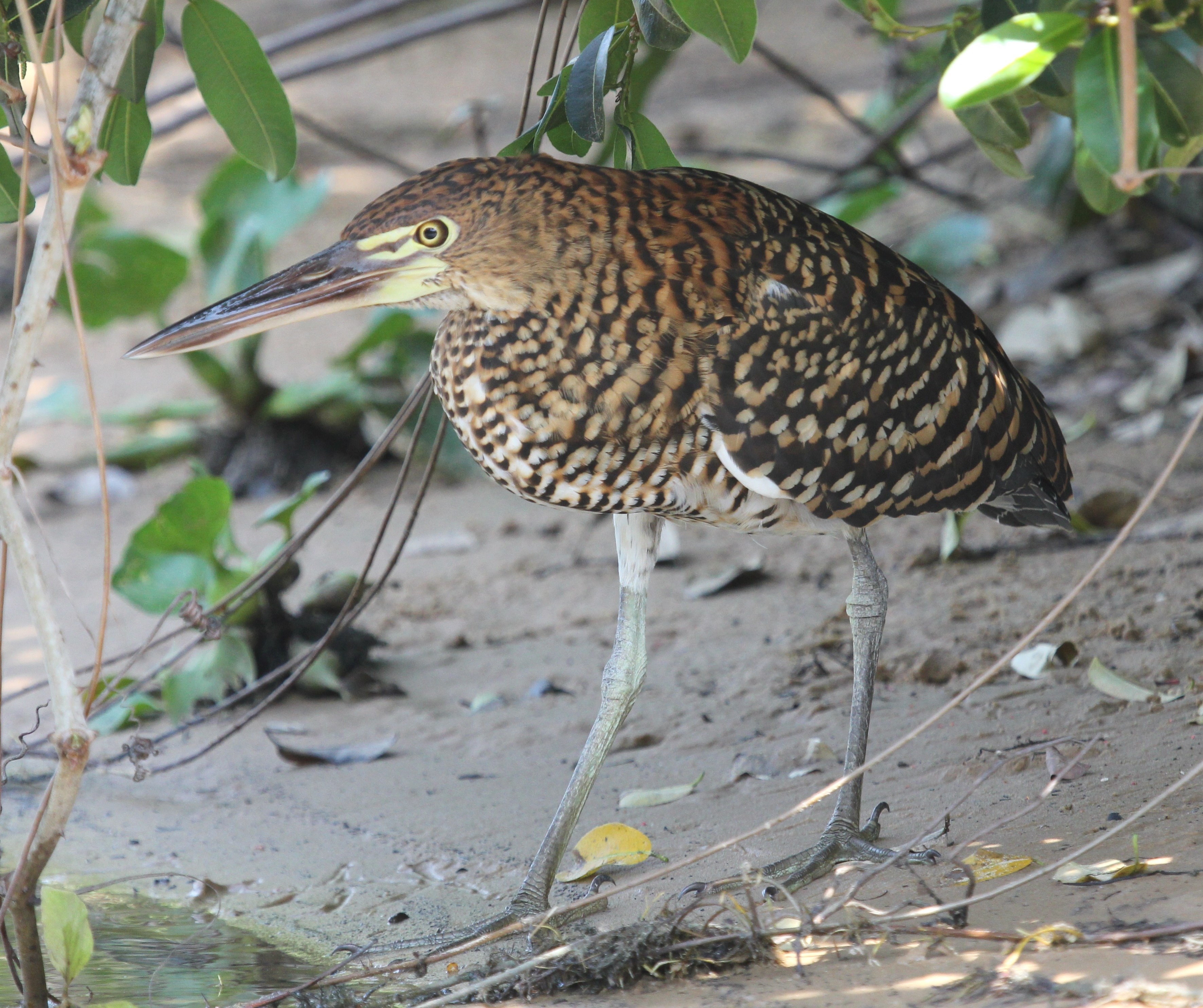 Juvenile Rufescent Tiger Heron (Tigrisoma lineatum) in the Pantanal